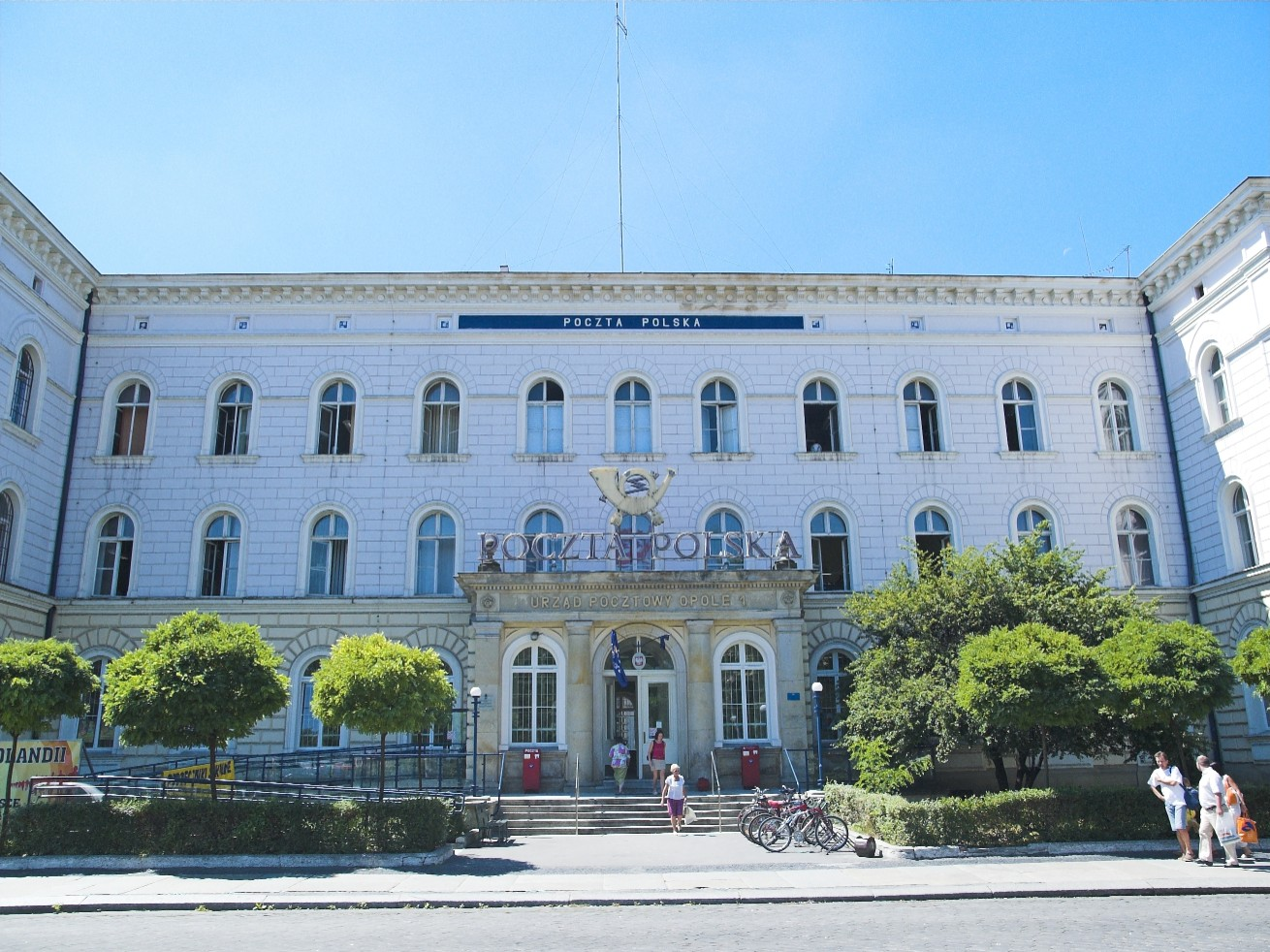 The main post office in Opole, Poland